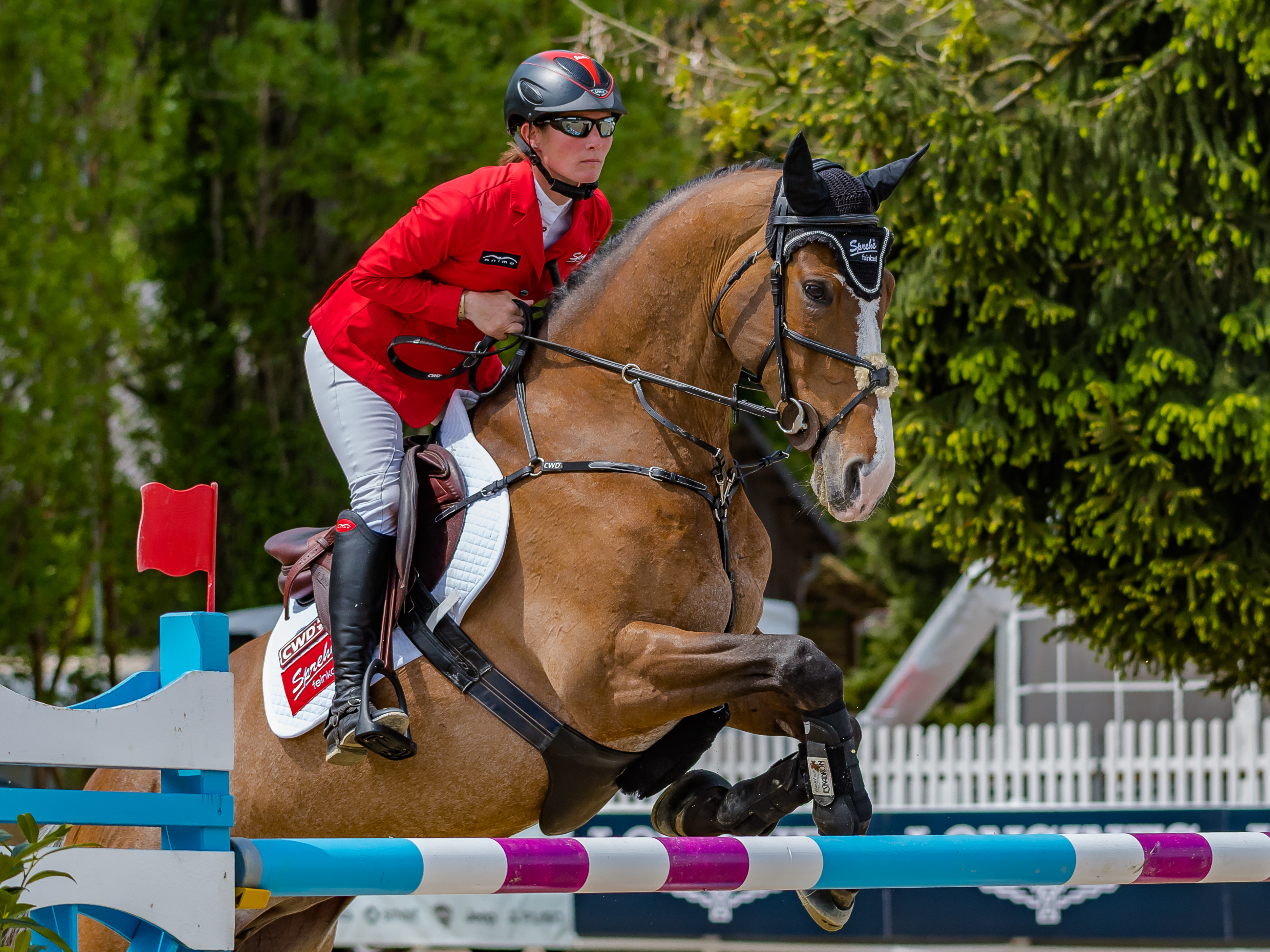 Linzer Pferdefestival / SILVER TOUR / May 4, 2017/ Int. jumping competition against the clock (1.40 m) / Table A, FEI Art. 238.2.1 - CSIO4* - 1 horse per athlete / Luna, Jörne Sprehe (GER)